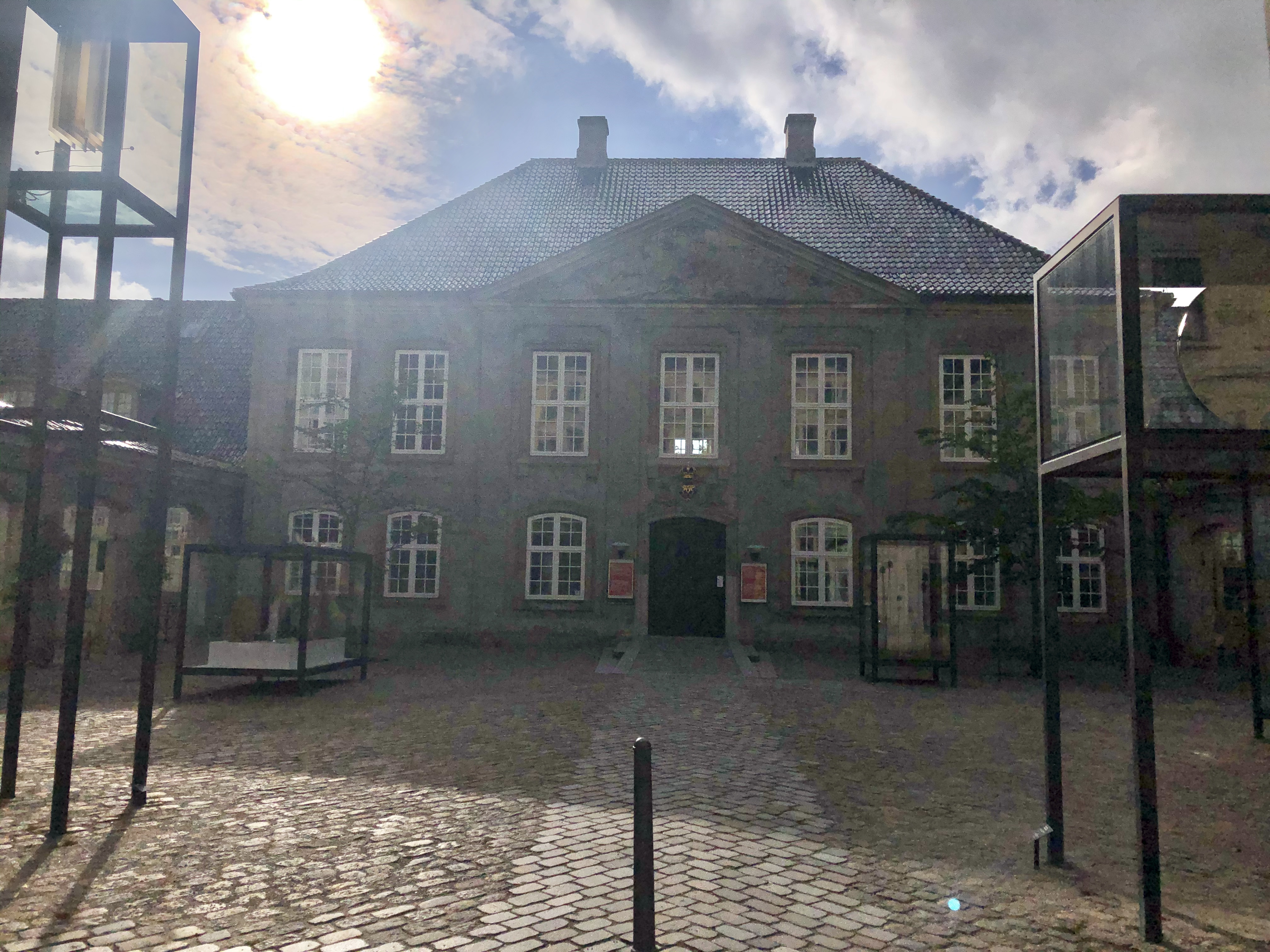 Designmuseum with new outdoor plaza, Copenhagen